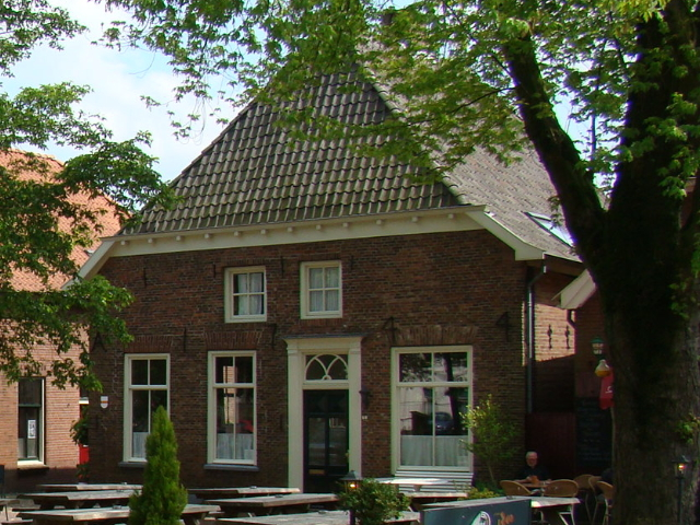 't Zand 2, monumental house at Bredevoort (Netherlands)